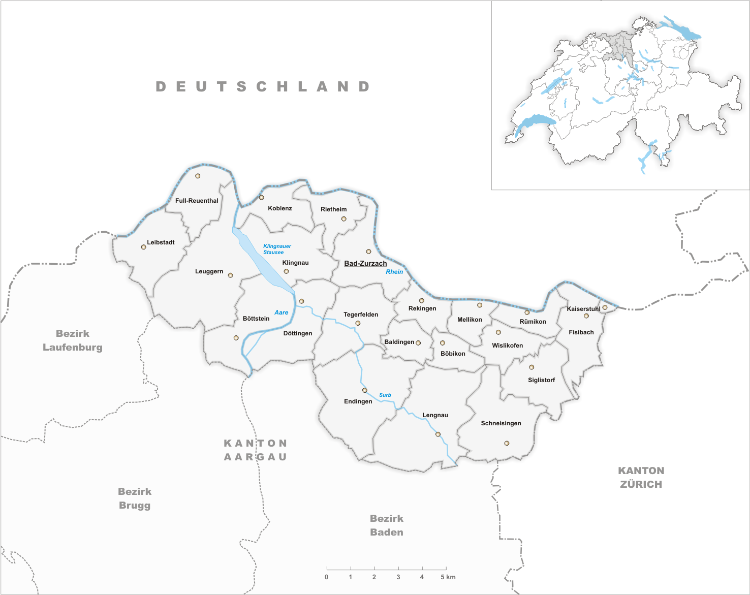 Municipality in the District of Zurzach